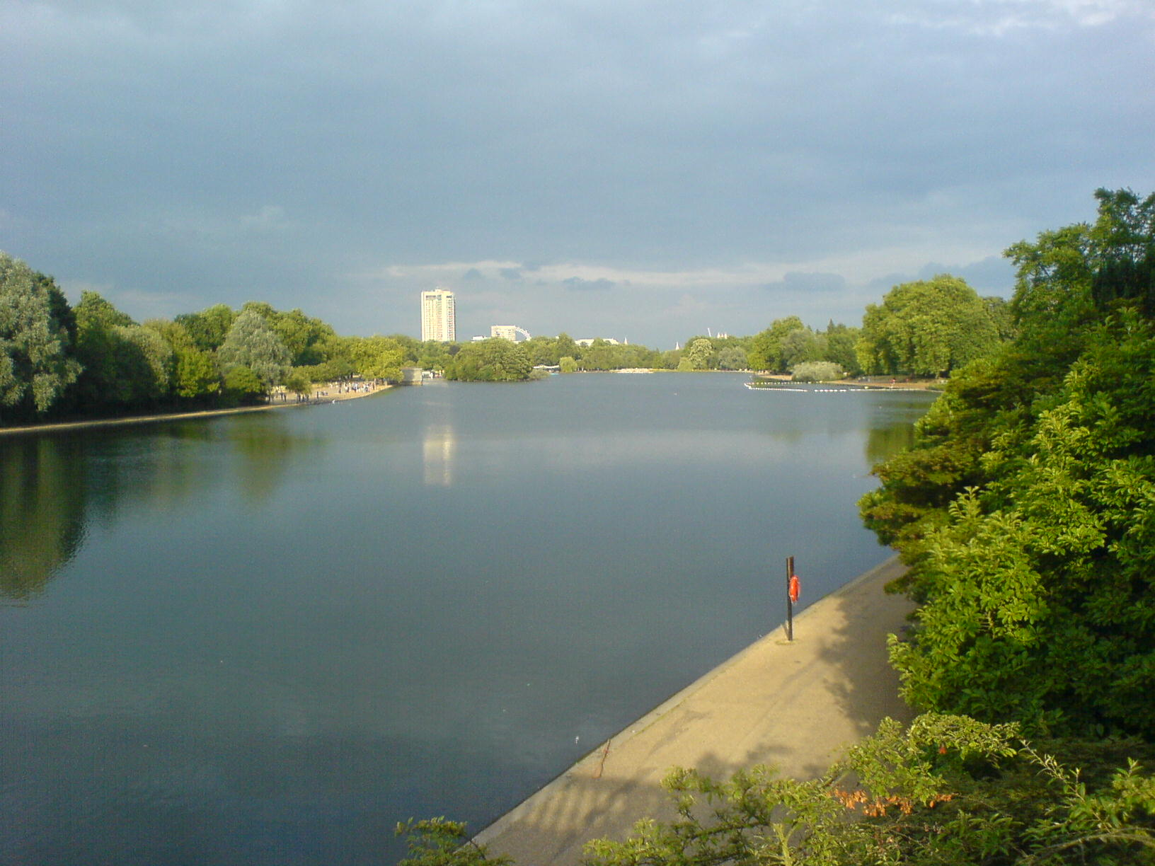 The Serpentine looking east from Serpentine Bridge, taken on 7th July 2006. The 101m high London Hilton on Park Lane is visible as well as part of the London Eye in the distance.